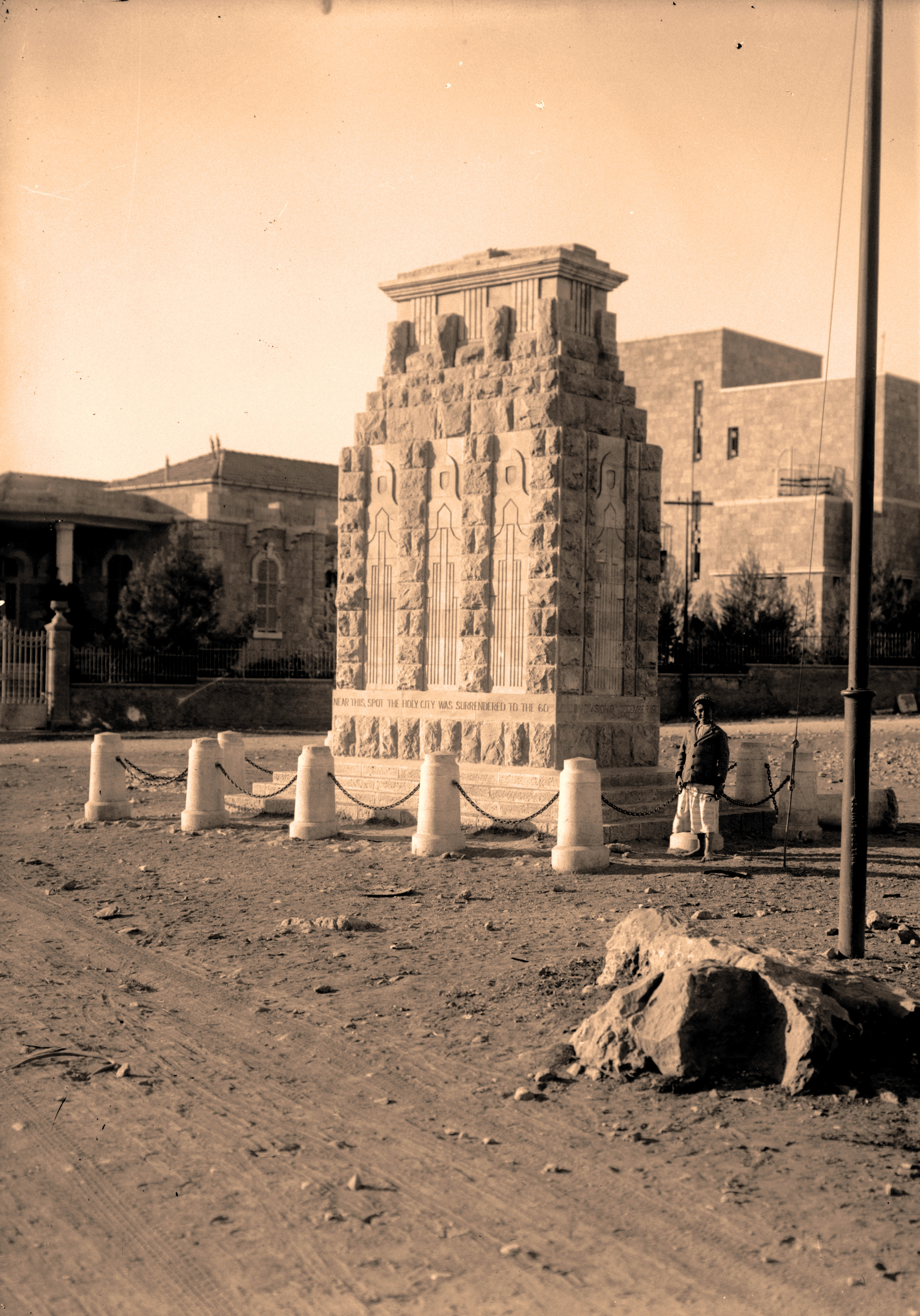 Newer Jerusalem and suburbs. Surrender Monument in Romemah [i.e., Romema] Colony